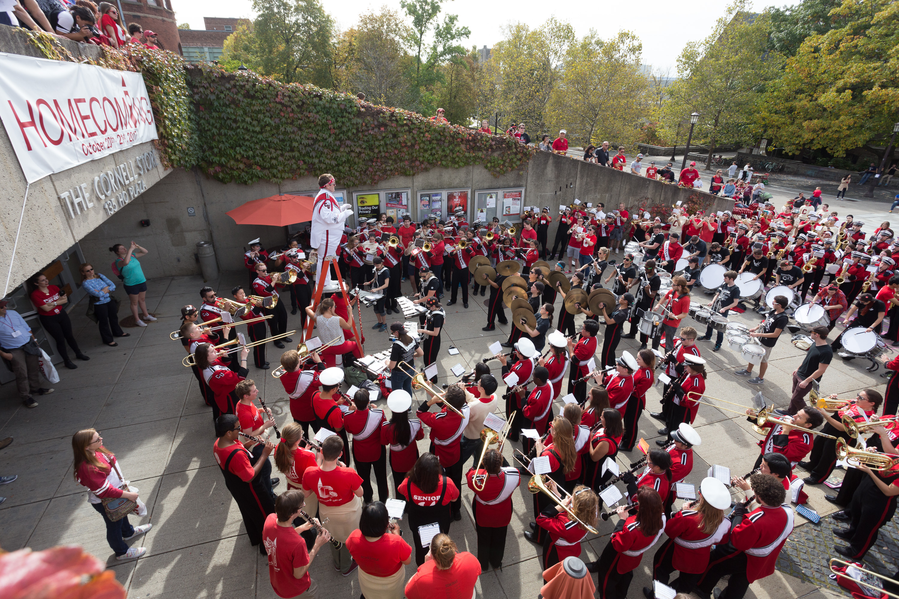 The Big Red Marching Band, including alumni band, plays during Homecoming, October 21, 2017.